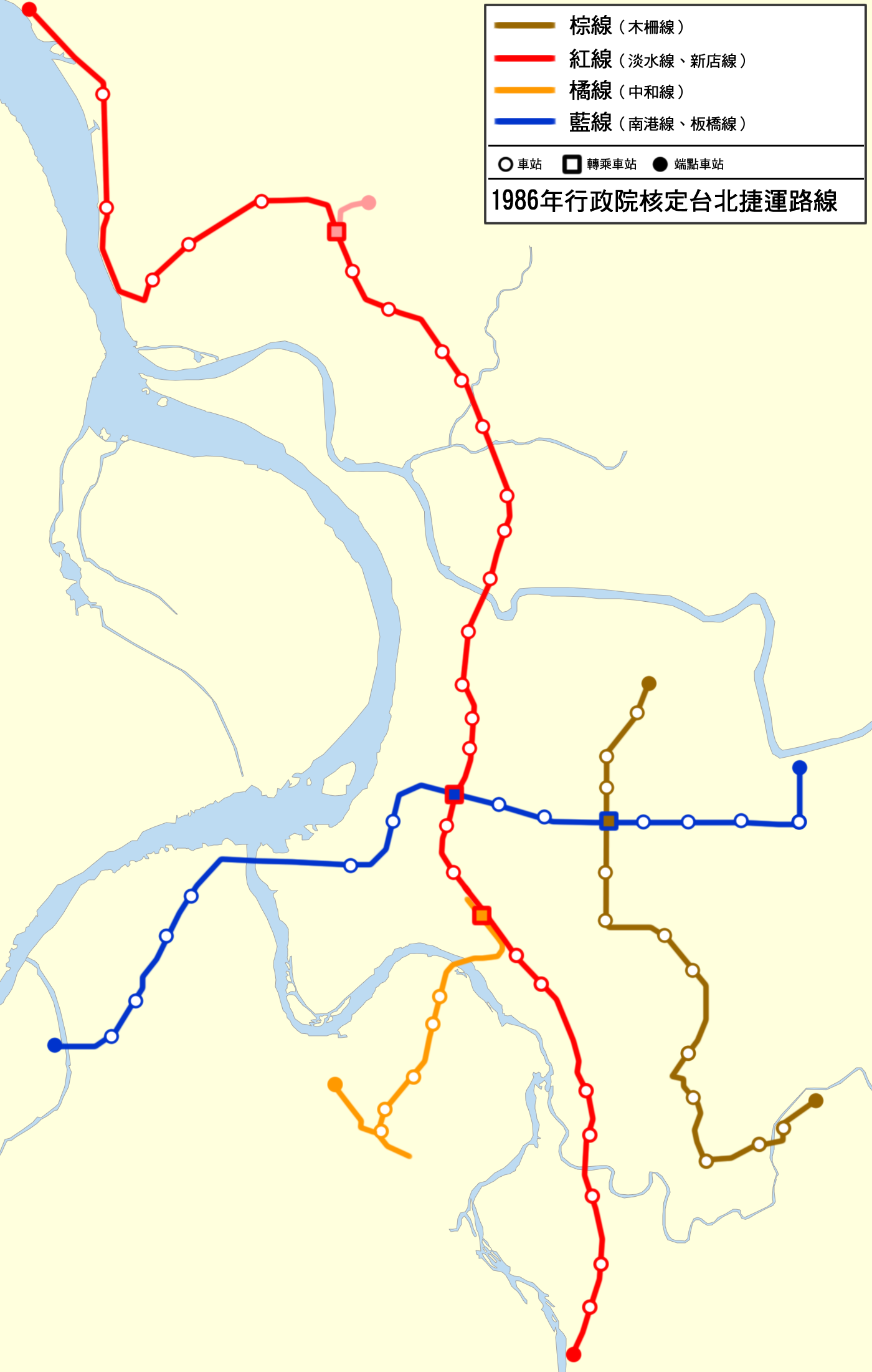 The initial route network map of Taipei MRT, which the Executive Yuan approved in 1986.(Notice: Positions of stations are not precise.)